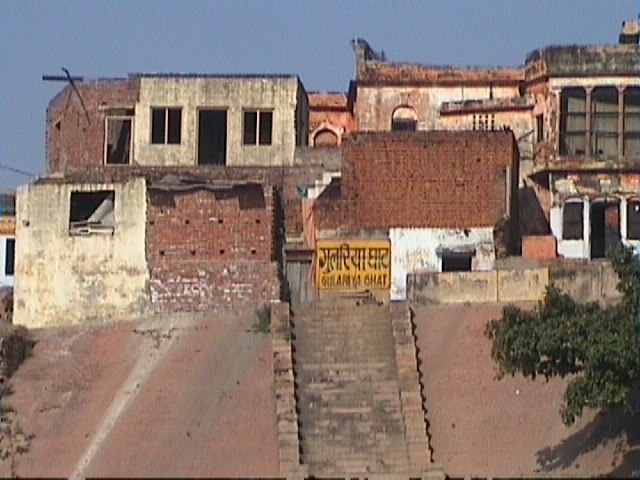 Hindu culture, have attributed supreme importance to the preservation of tradition Classical civilizations, and especially the Indian one, have attributed supreme importance to the preservation of tradition. Its central idea was that social institutions, scientific knowledge and technological applications need to use "heritage" as a "resource". Using contemporary language, we would say that ancient Indians considered, as social resources, both economic assets (like natural resources and their exploitation structure) and factors promoting social integration (like institutions for preserving knowledge and maintaining civil order). Ethics considered that what had been inherited should not be consumed, but should be handed over, possibly enriched, to successive generations. This was a moral imperative for all, except in the final life stage of sannyasa